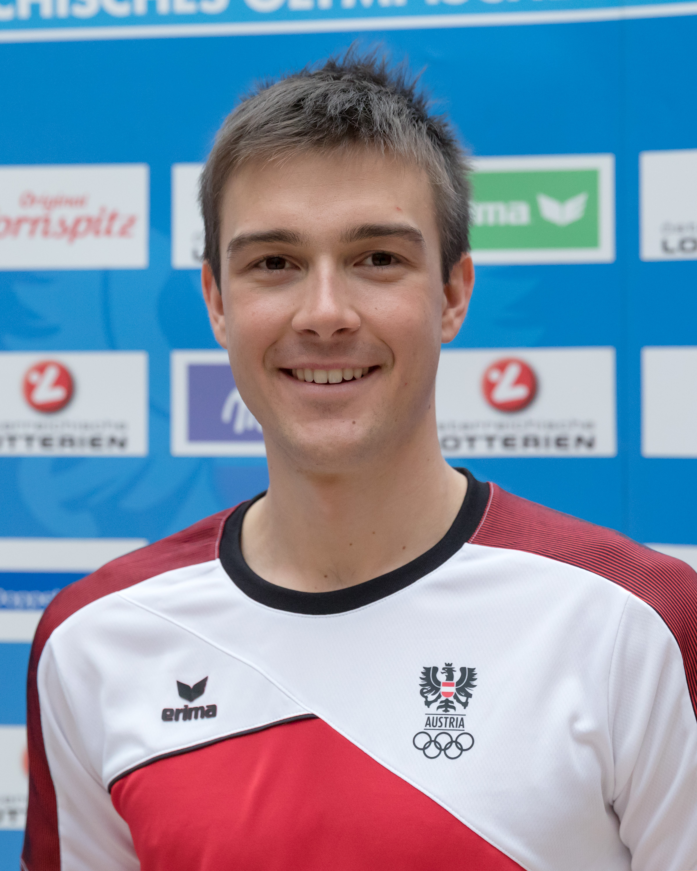 Max Hauke at the outfitting of the Austrian team for the 2018 Winter Olympics (Hotel Marriott in Vienna, Austria.